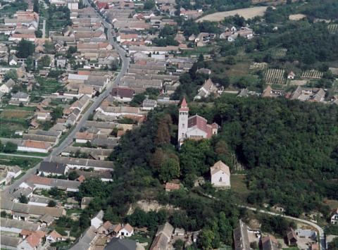 Aerial wiev of Báta, Tolna County, Hungary